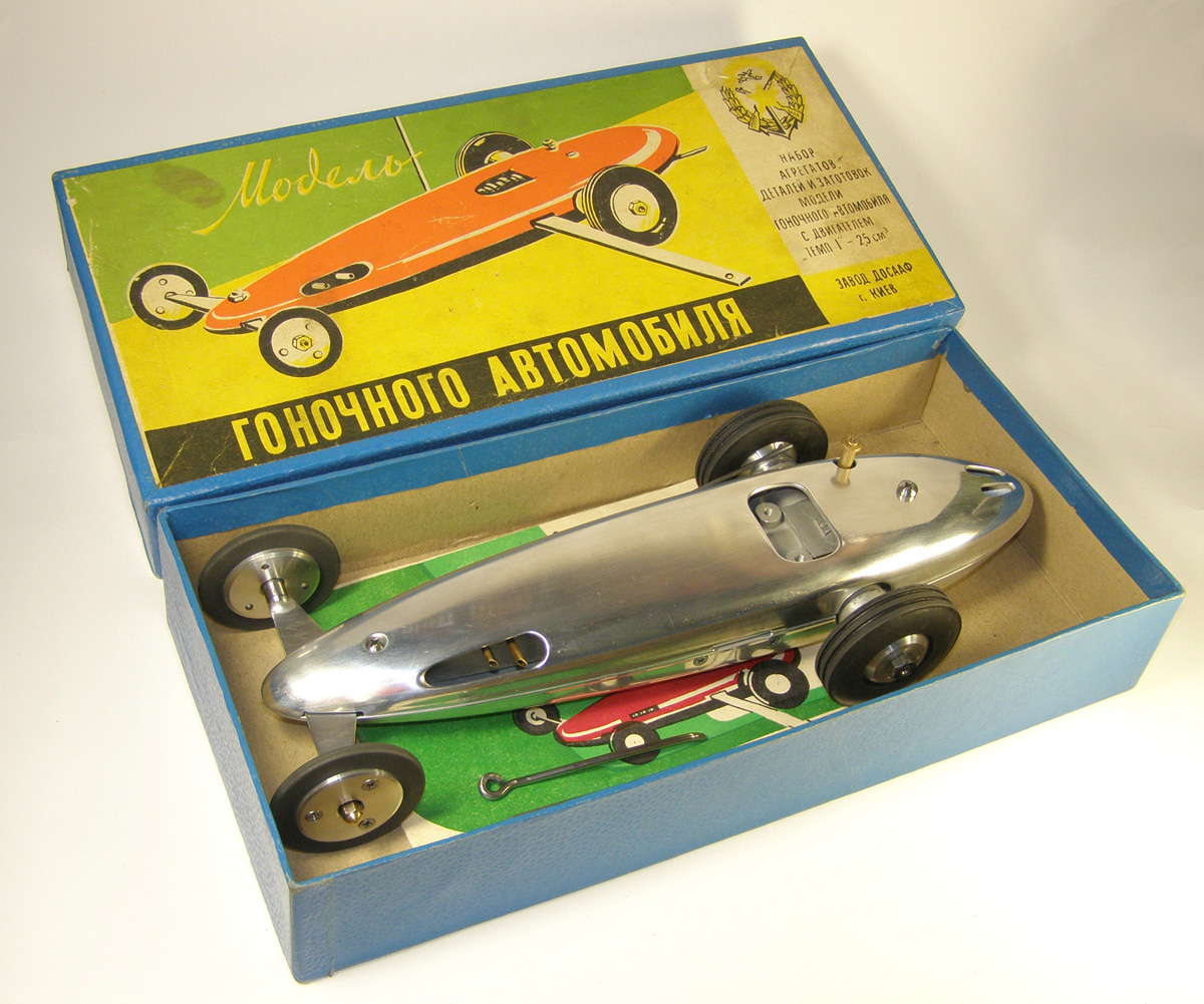 Vintage USSR Tether cars